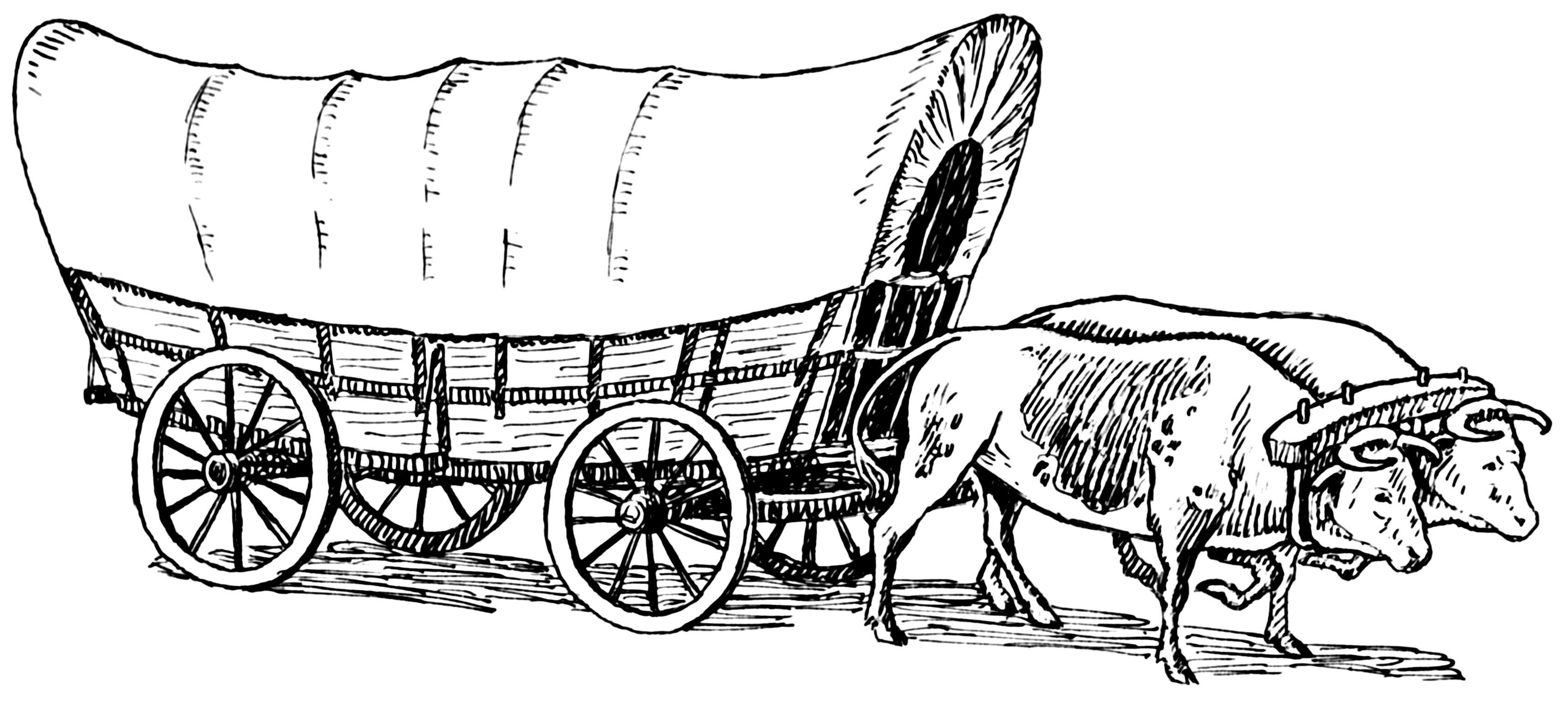 Line art drawing of prairie schooner.